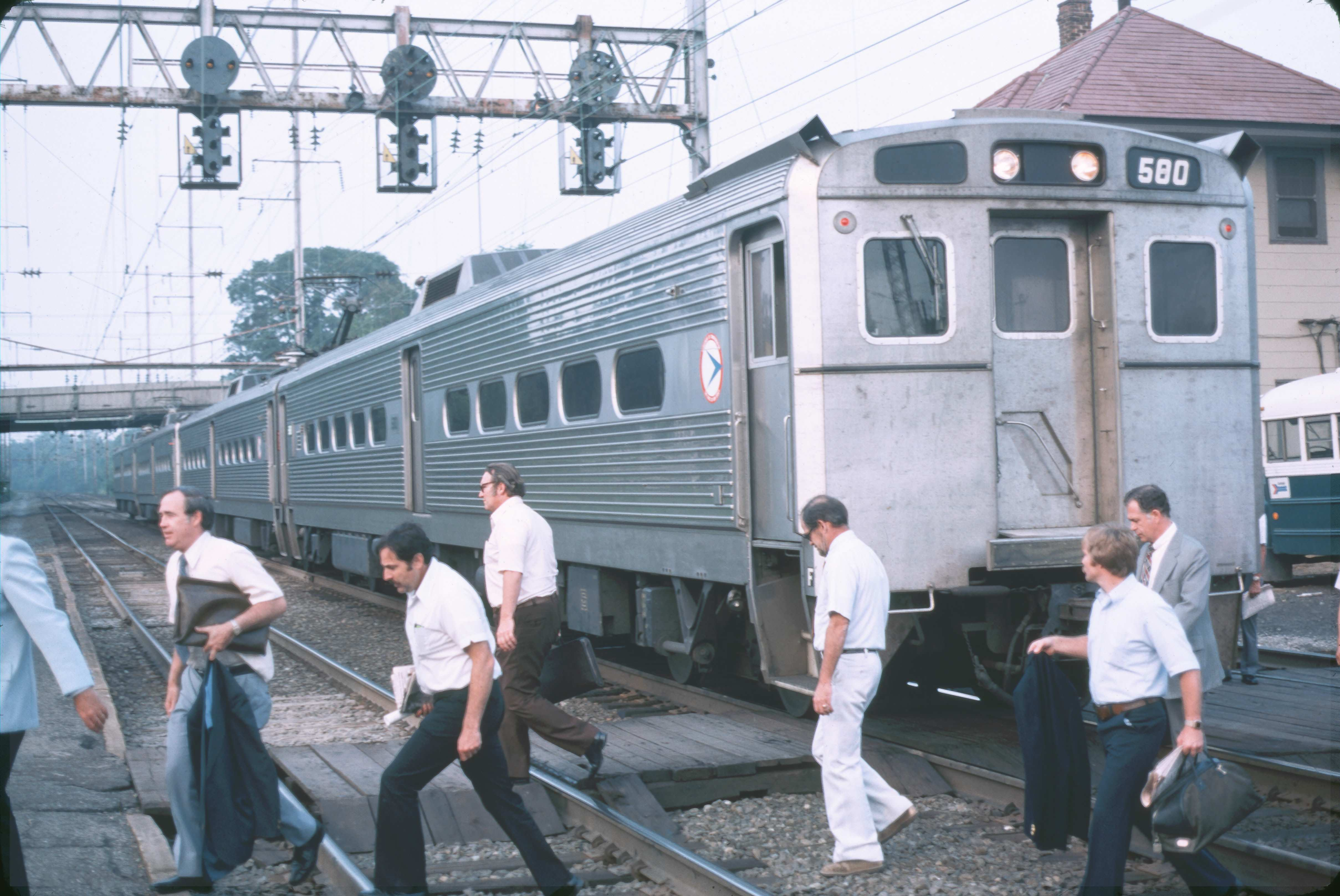 A Conrail train of Arrow II cars (rented from New Jersey) at Bowie in 1978. Amtrak's Chesapeake used the same equipment, but the longer consist and the logo indicate this is the Conrail commuter service.